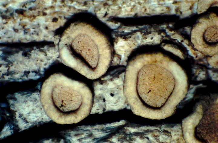 Ochrolechia pseudopallescens Brodo, 1981 Photograph of a herbarium specimen taken through a dissecting microscope (x26) showing pruinose, lecanorine apothecia. Spot tests on apothecial margin: K- (or very pale yellow), KC-, C- PD-. This specimen of Ochrolechia pseudopallescens was growing on wood along the Yellow Trail at the Humboldt Field Research Institute on Eagle Hill in Steuben, Washington County, Maine, USA. Collected by E.C. Uebel; identification determined by Dr. David H.S. Richardson (No. U-111, 11 Jun 2001)